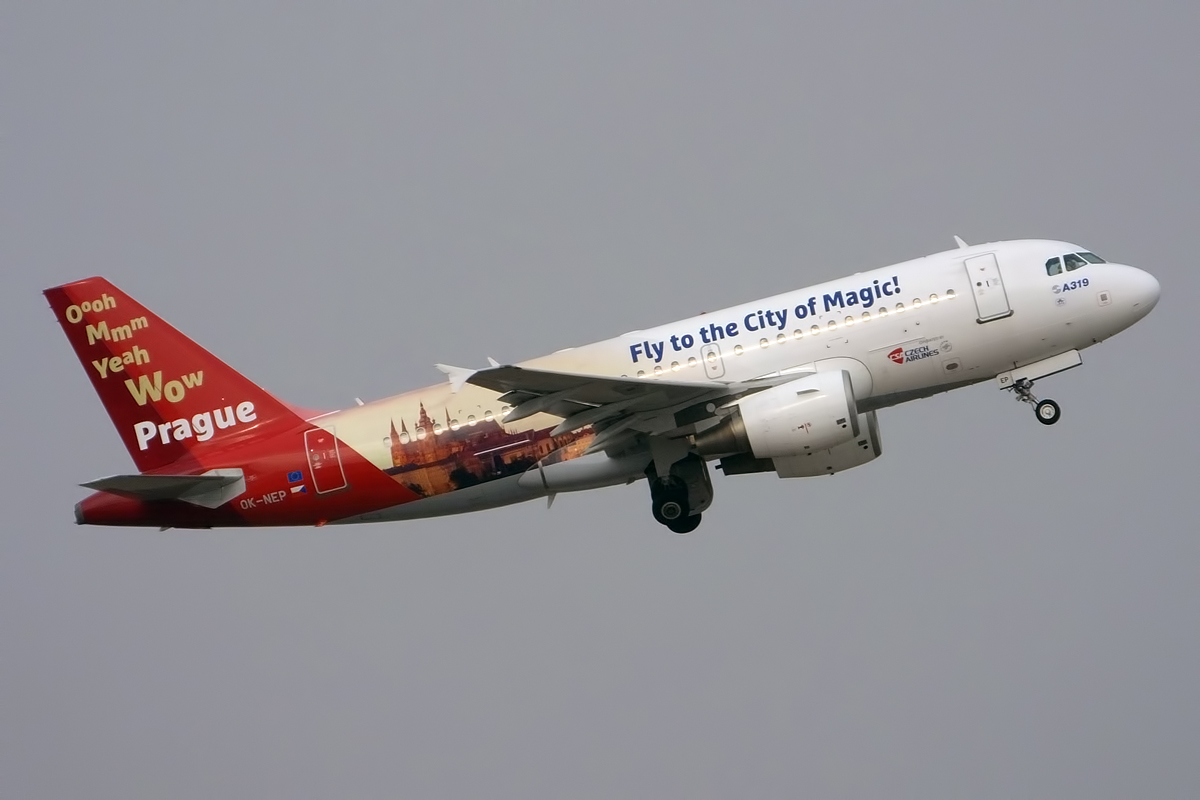 Czech Airlines (City of Prague livery), OK-NEP, Airbus A319-112